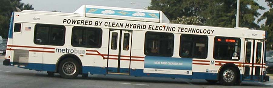 Hybrid New Flyer DE40LF Metro bus photographed in USA.